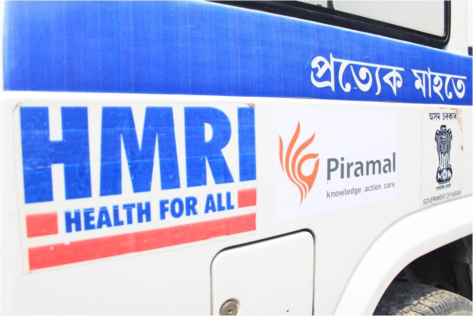 Piramal HRMI